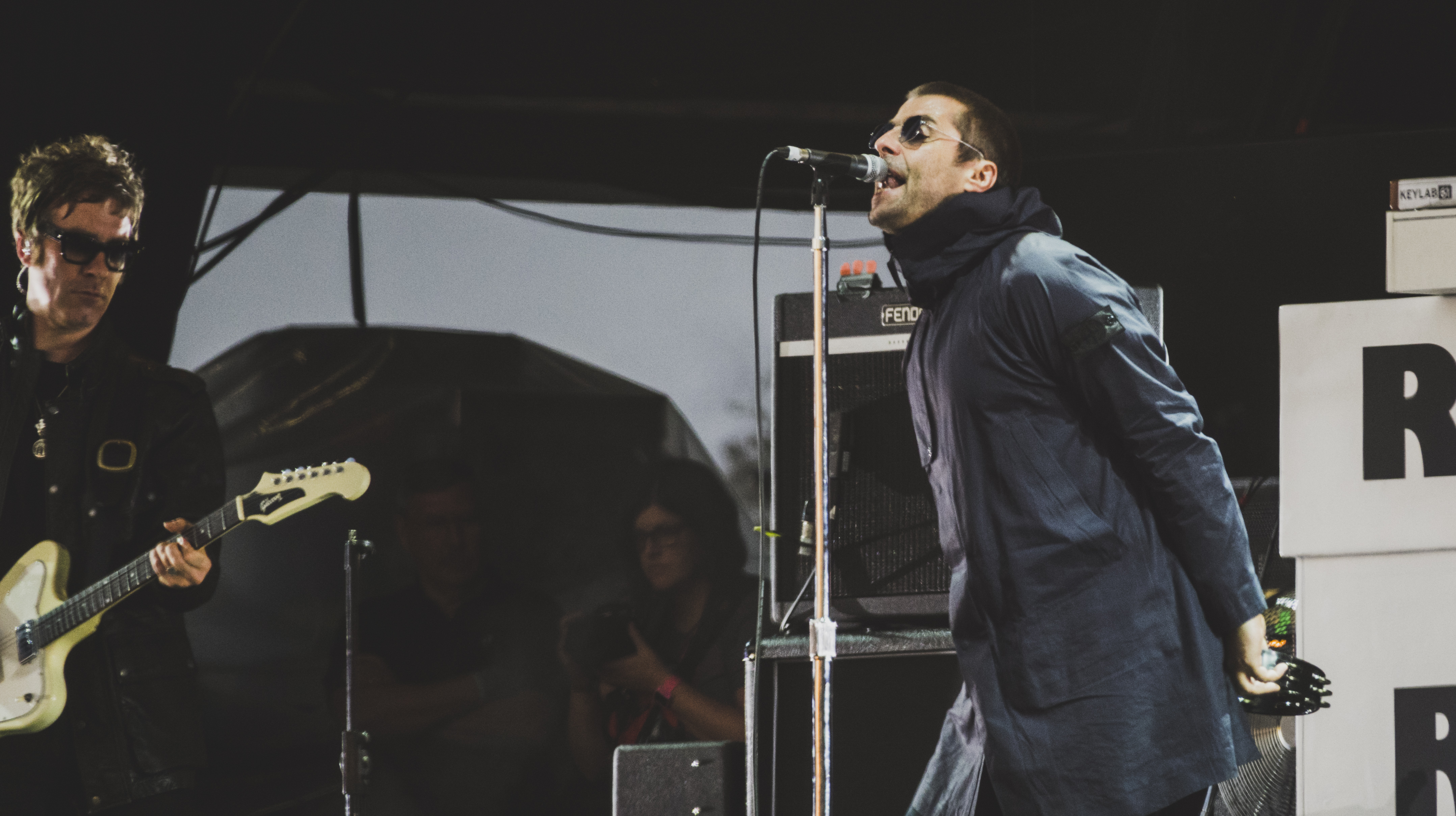 MuseReading270817-4